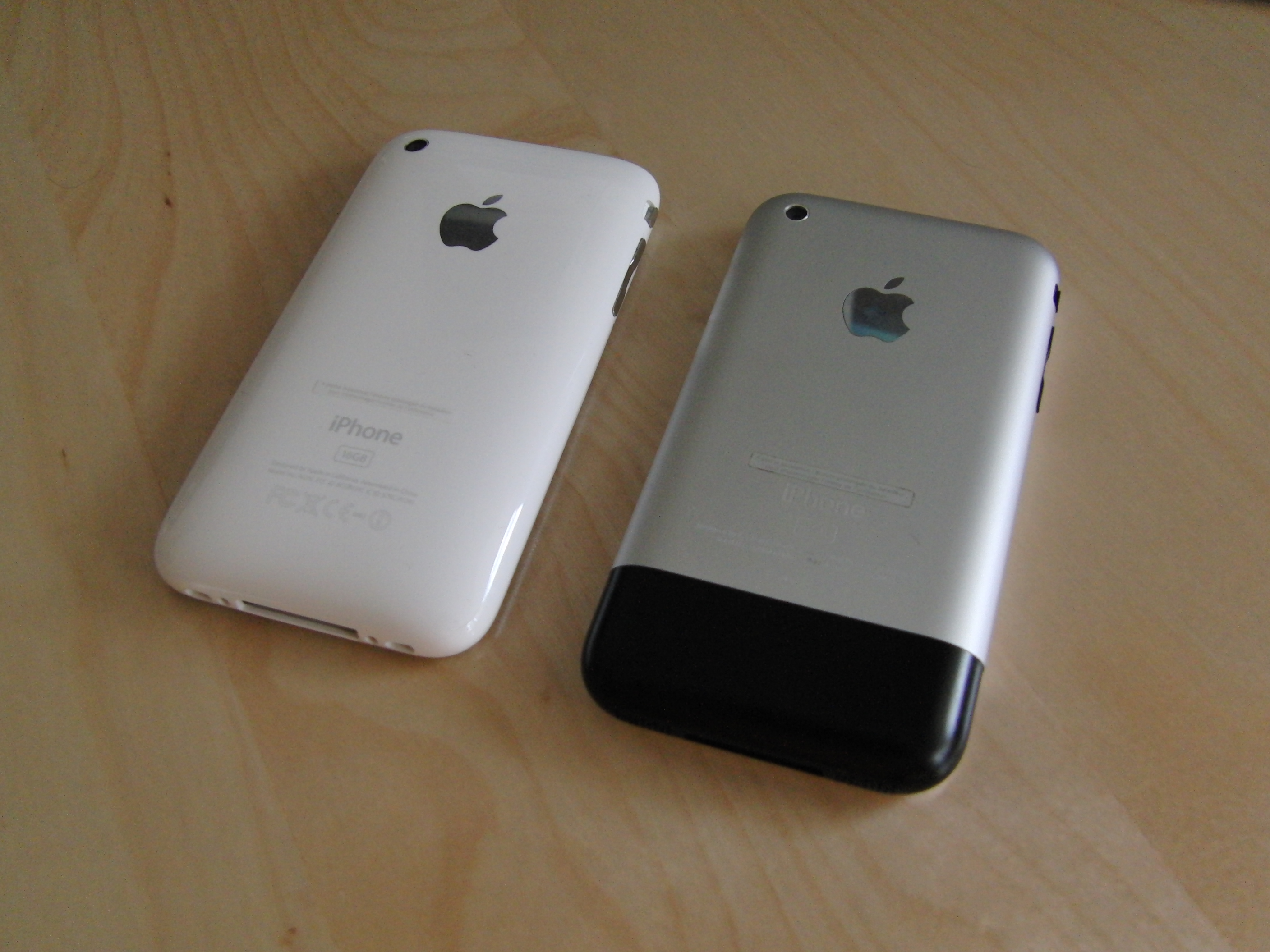 Rears of iPhone 3G and original iPhone